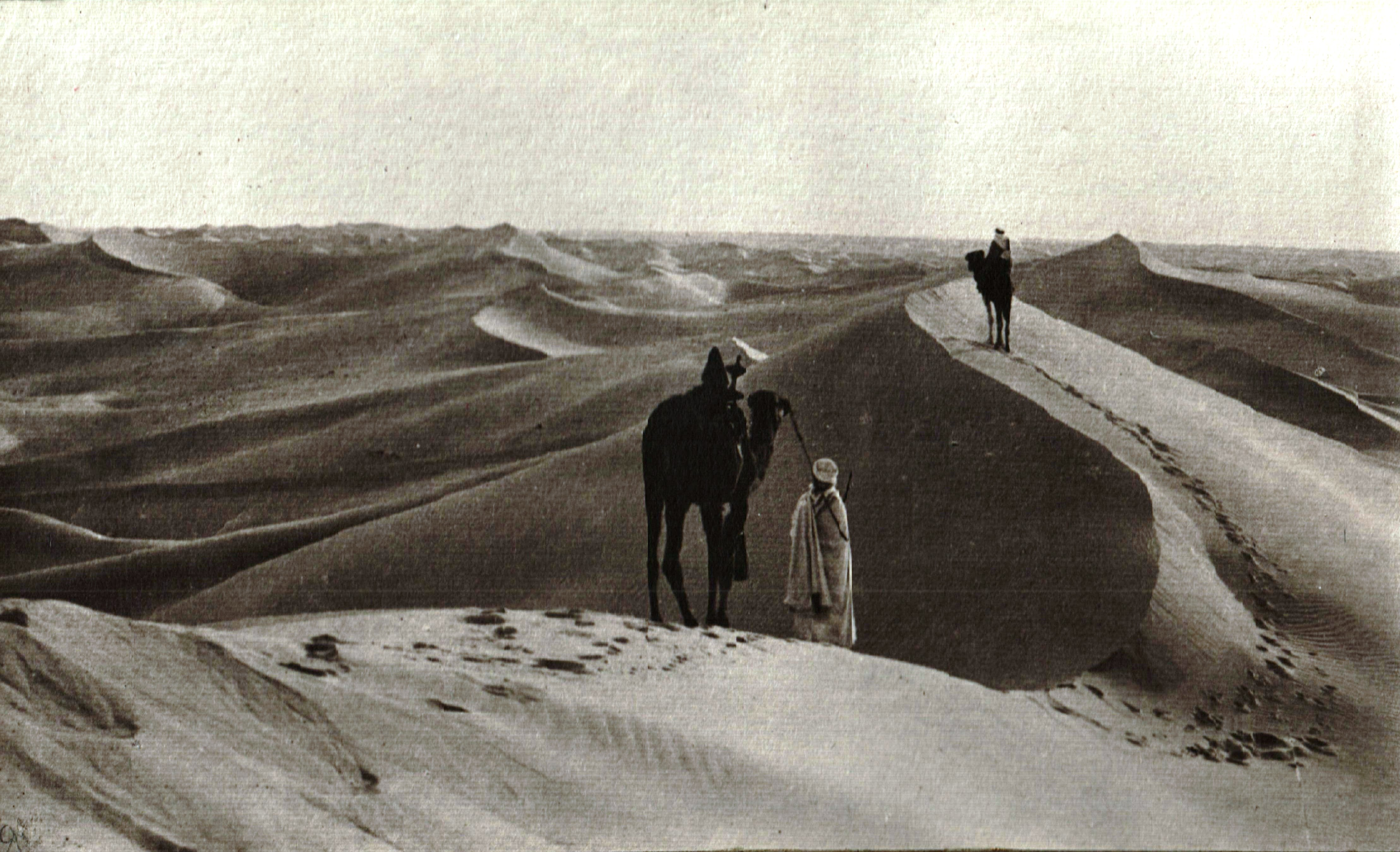 Scenes and images from Sahara and other sights of Africa.